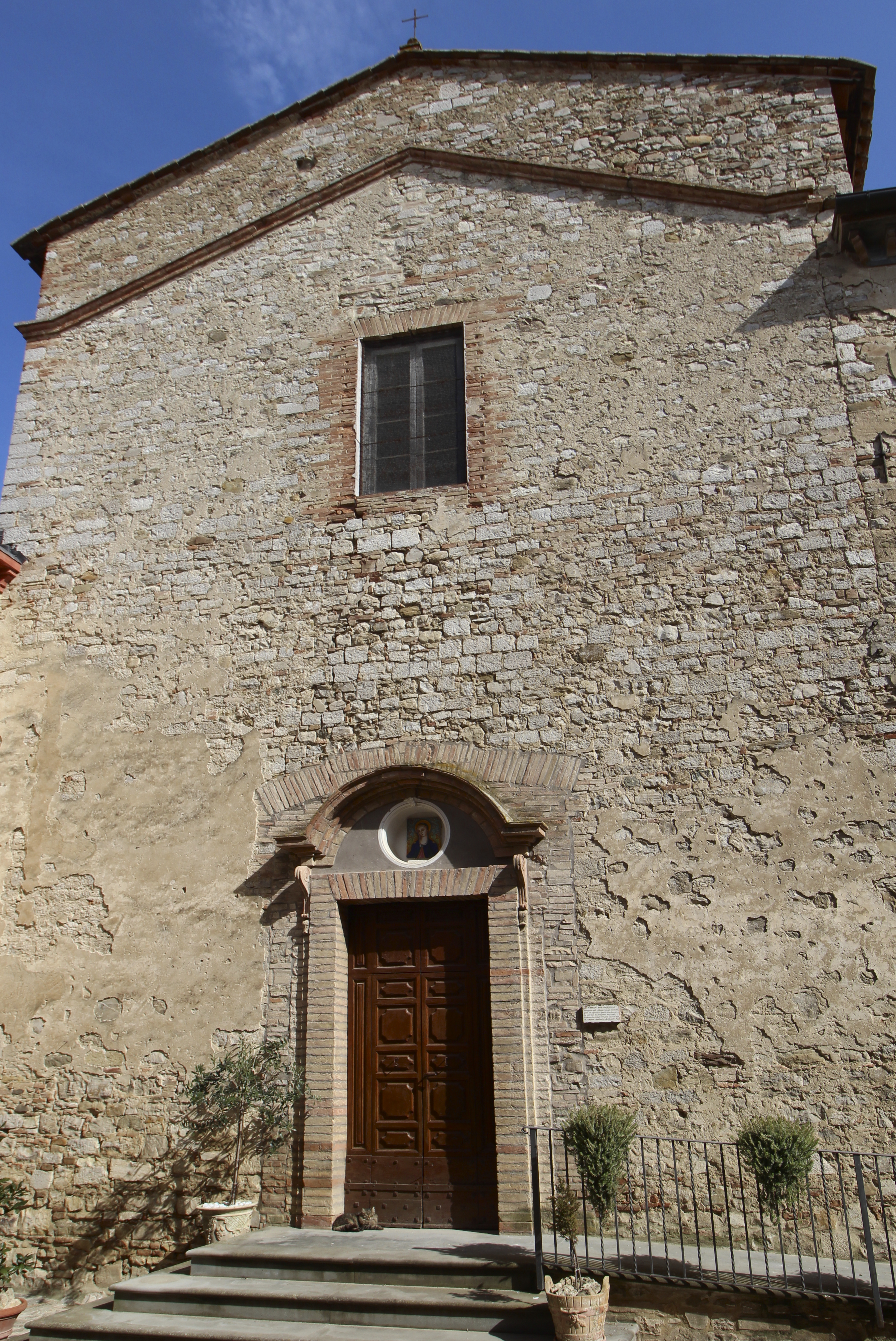 Church San Silvestro, Morcella, hamlet of Marsciano, Province of Perugia, Umbria, Italy